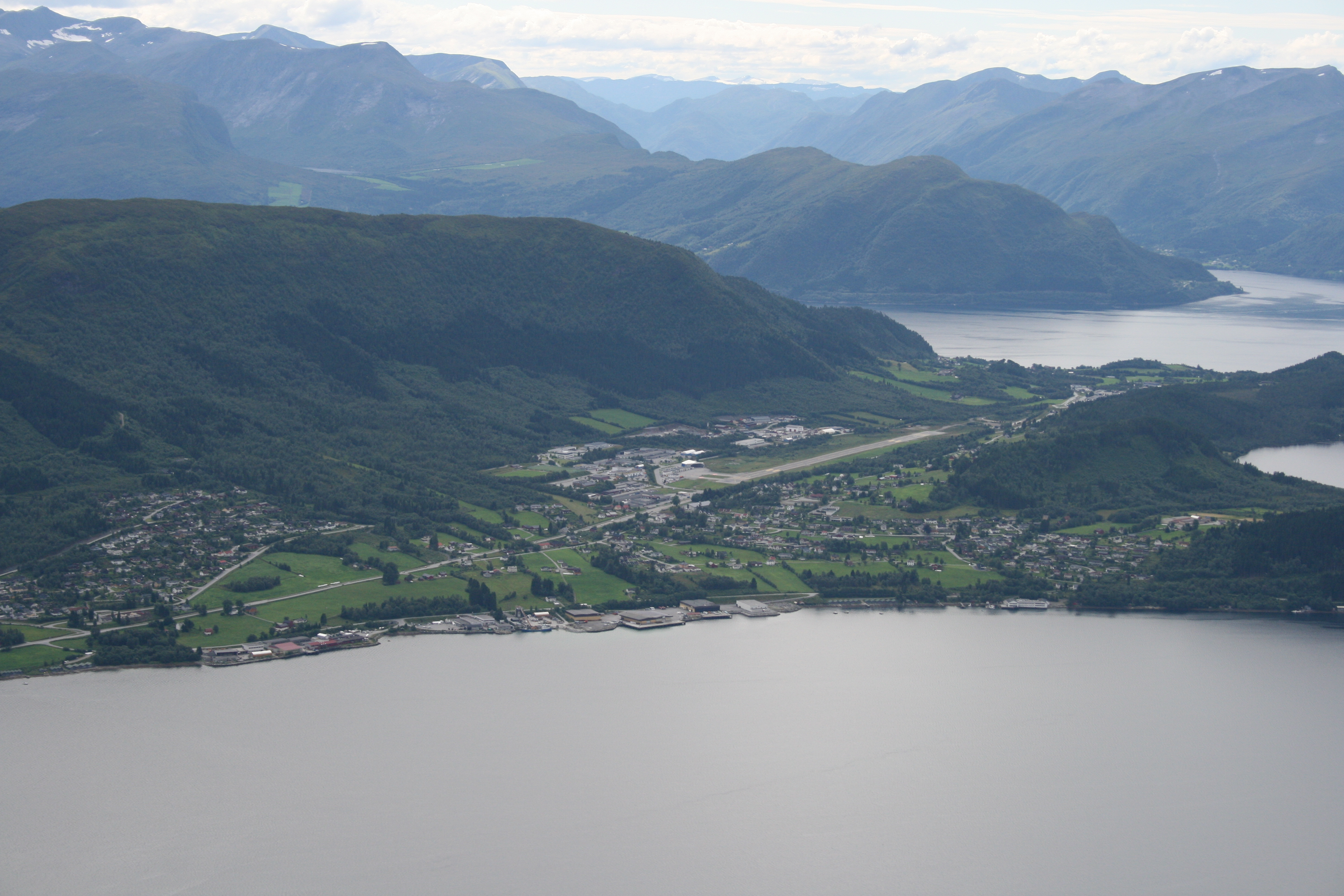 Hovdebygda. Ørsta, Norway